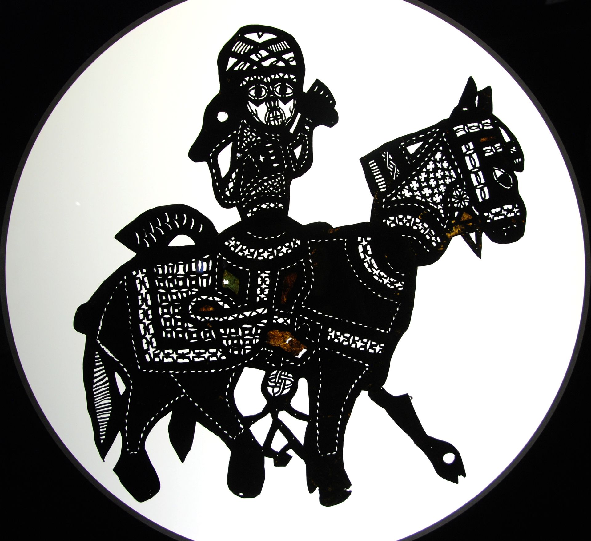 Shadow puppet of a man on a horse. Egypt, 14th to 18th century. Collected by Paul Kahle 1909